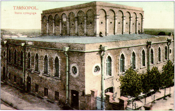 Old postcard of the Old Jewish synagogue in Ternopil, city in western Ukraine. Ca. 1908.